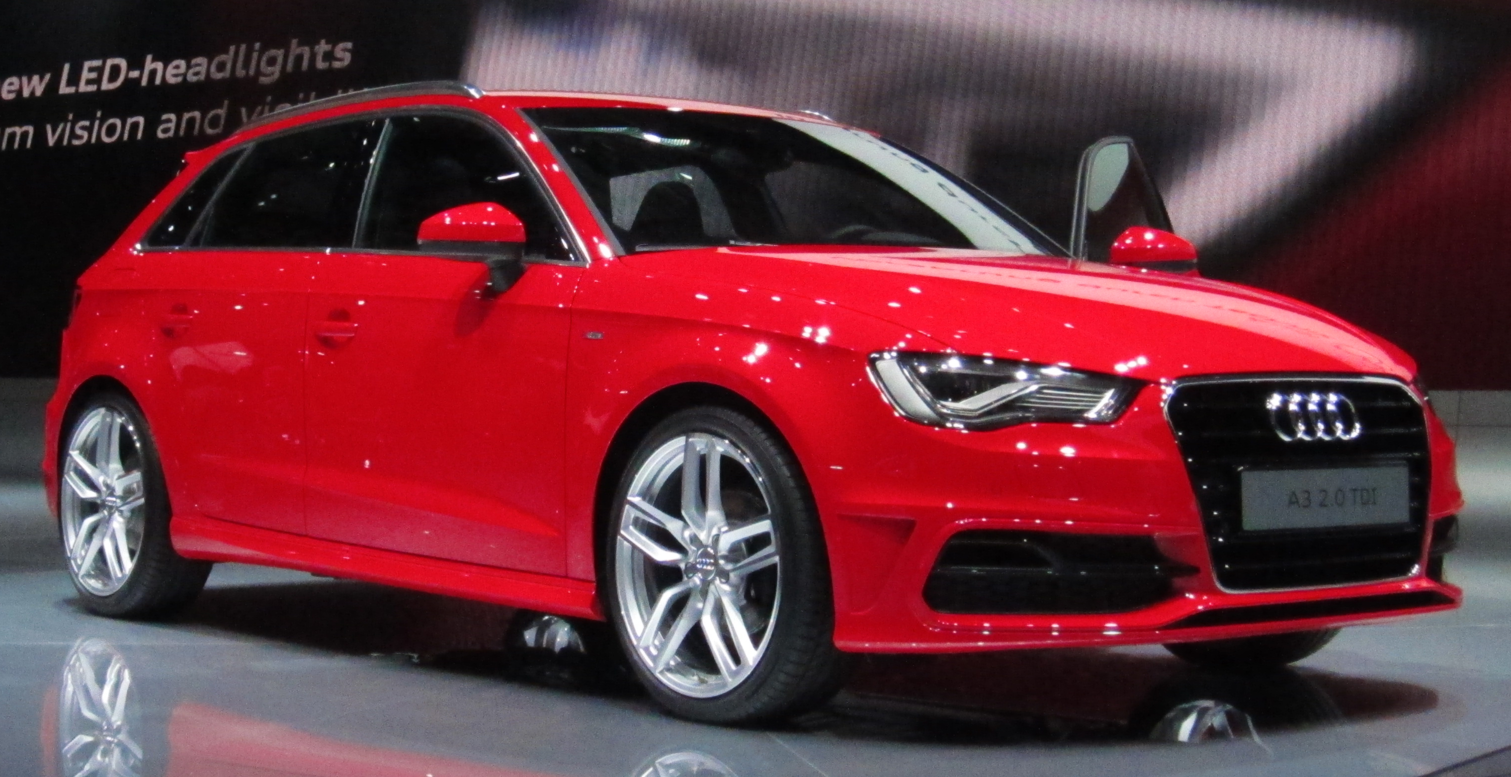 Audi A3 8V Sportback at Mondial de l'Automobile Paris 2012